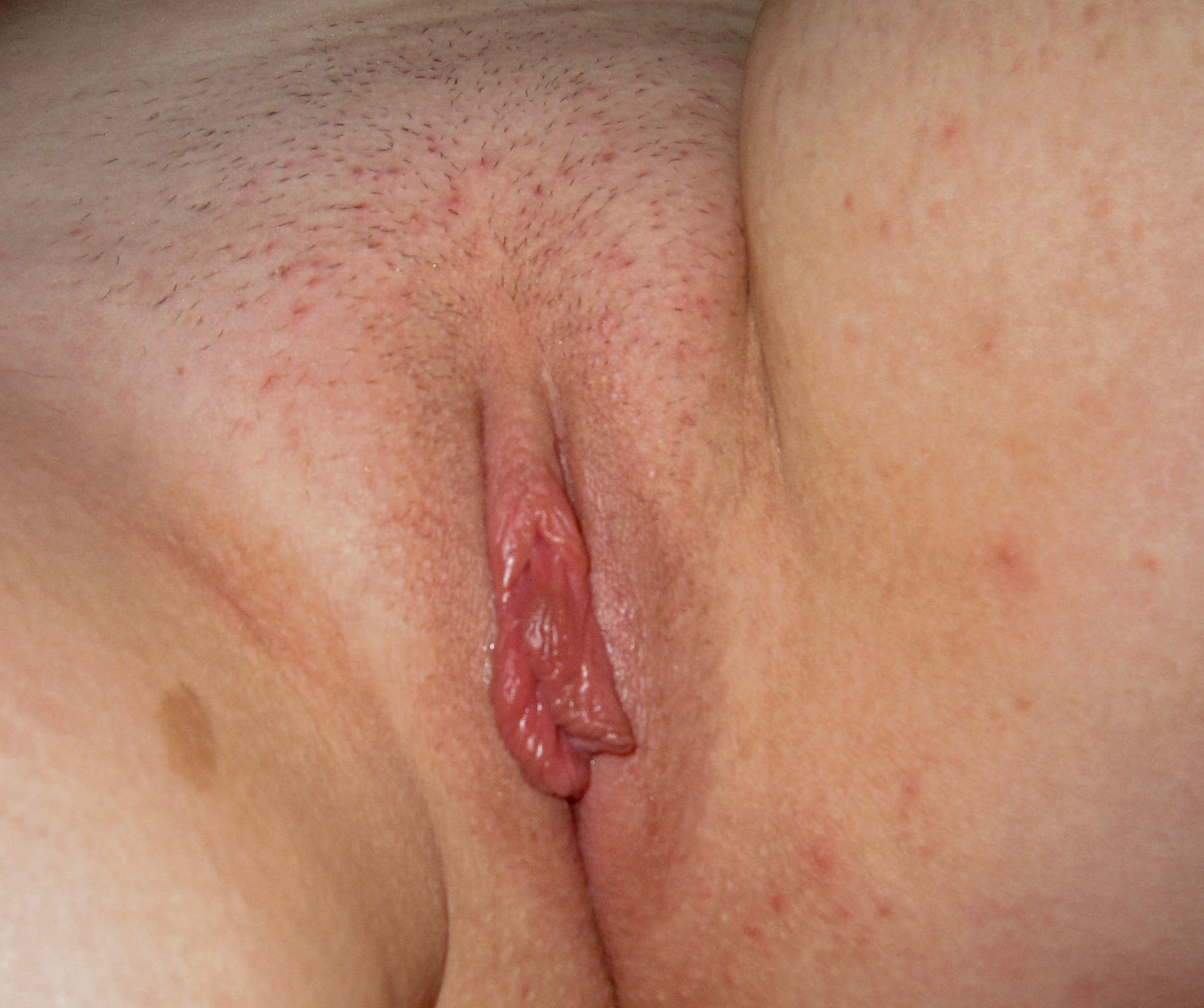 Recently shaved vulva of a 20 year old European woman. The skin in the mons pubis area and inner thigh shows clear signs of folliculitis. The protruding labia minora are enlarged and shiny from sexual arousal. There is a prominent café au lait spot on her inner thigh.